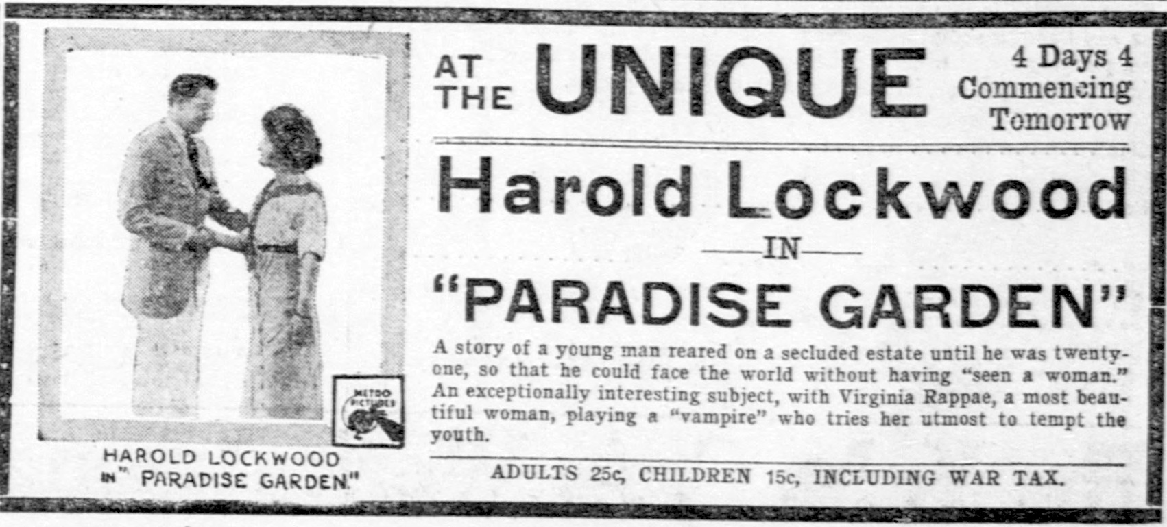 Paradise Garden is a lost 1917 silent comedy romance starring Harold Lockwood and directed by Fred J. Balshofer. This is a newspaper advert for the film.